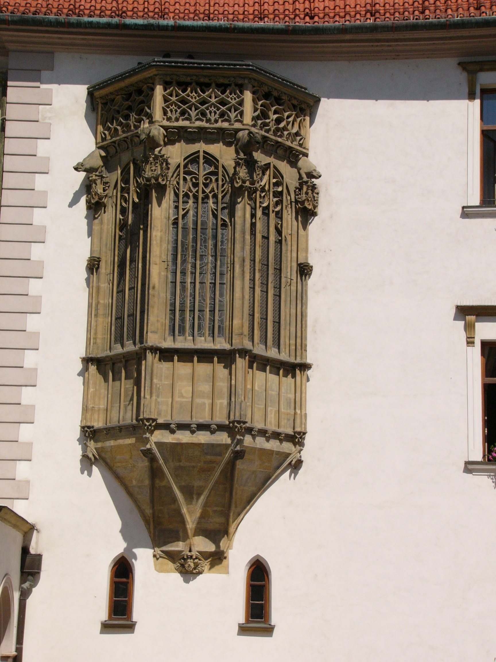 Gothic bay window of townhall in Olomouc (Czech Republic).